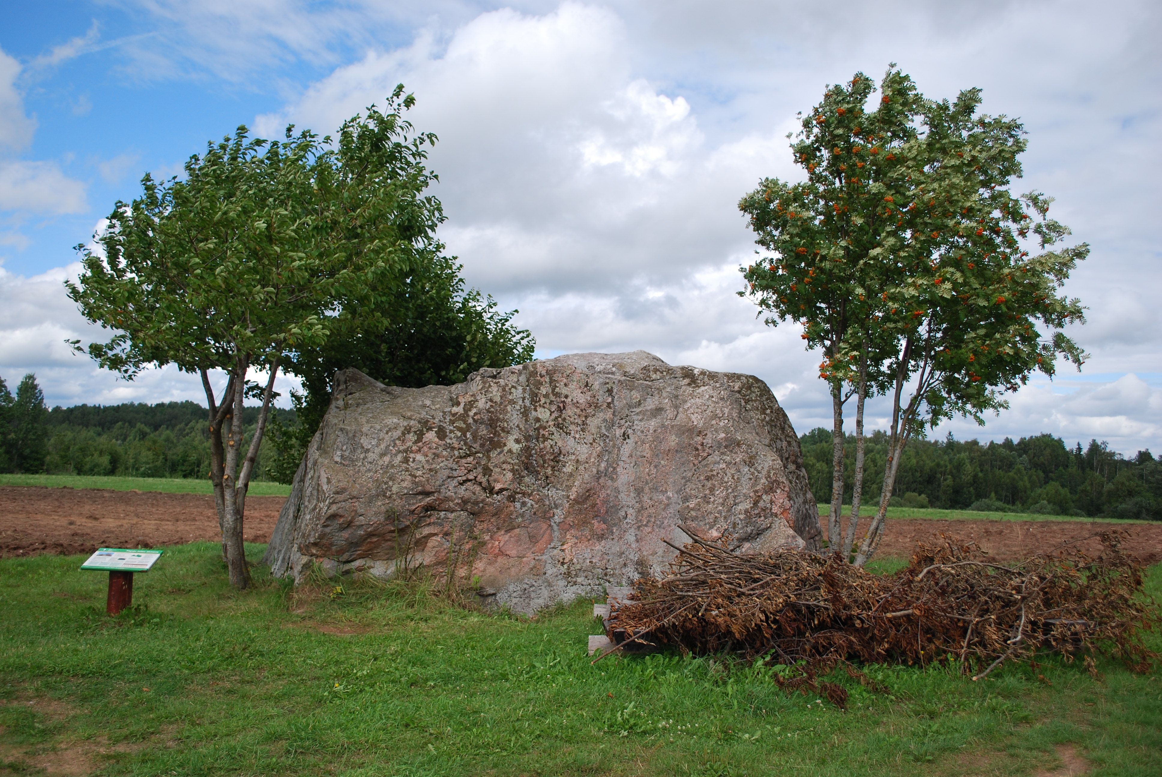 Tilgaļi boulder